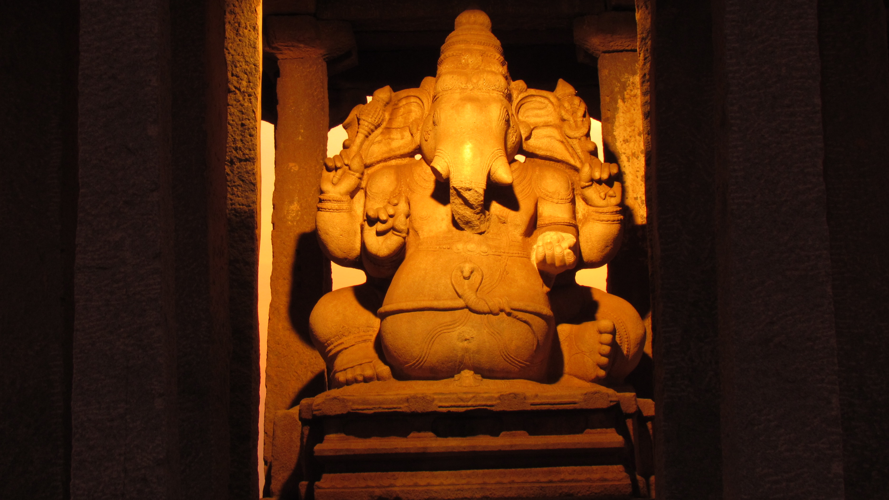 Closer view of Sasvikal Ganesha.